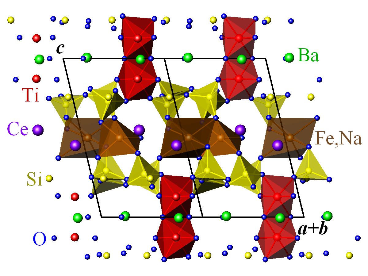 Crystal structure of joaquinite-(Ce), Ba2Ce2Ti2(Fe1,04Na0,96)Si8O26(OH)·(H2O), C2, projected onto the (a+b,c) plane. The hydrogen atoms are not represented.